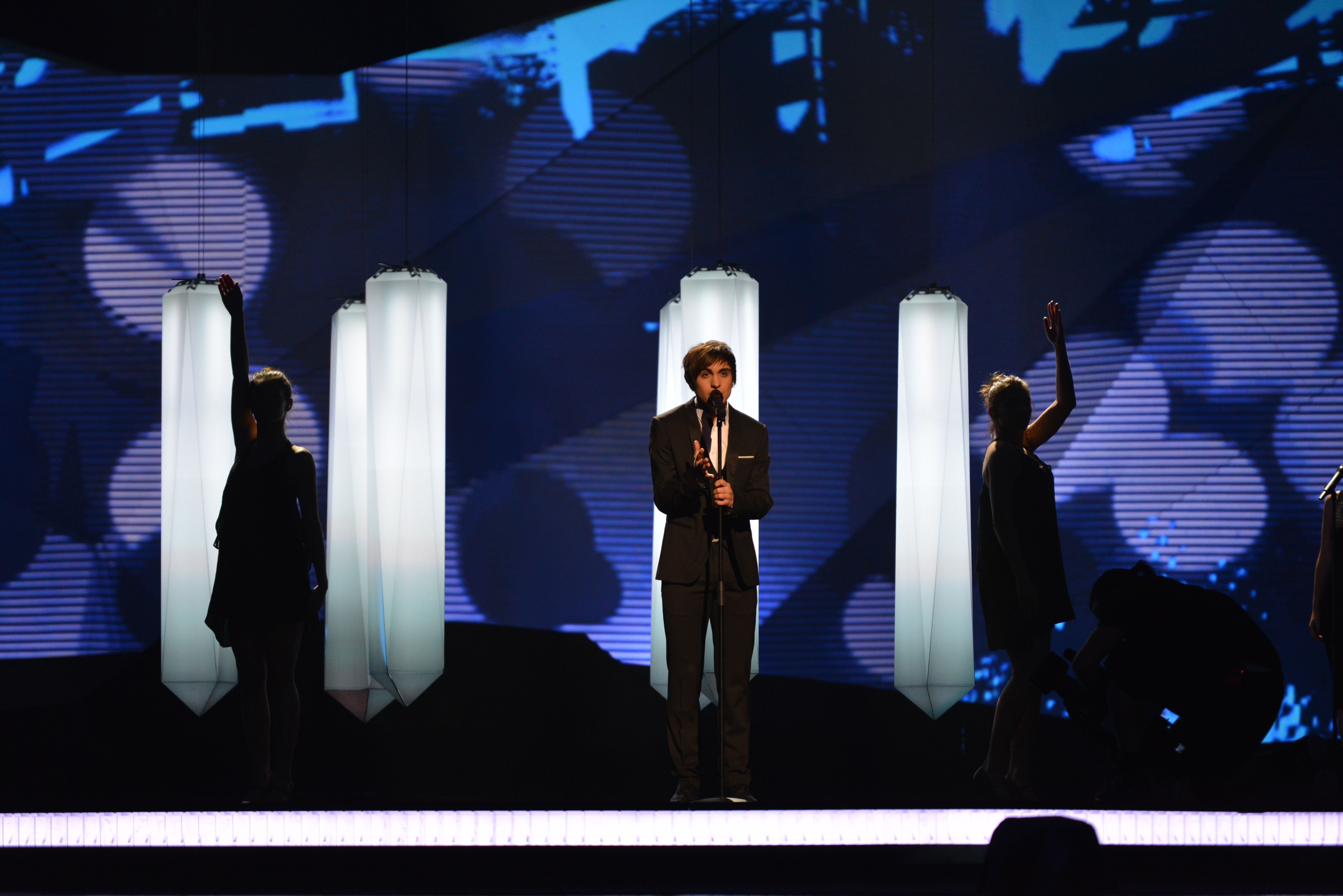 Roberto Bellarosa representing Belgium with the song "Love Kills" during the first dress rehearsal of the first semi final of the Eurovision Song Contest 2013 in Malmö. (Help translate this text)